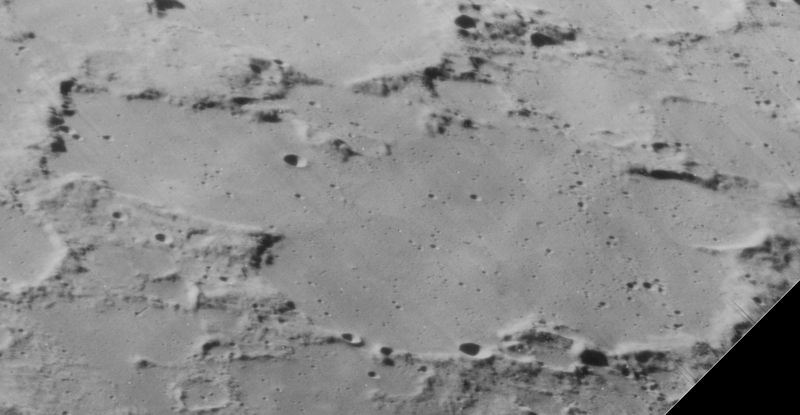 Oblique view of Meton crater and several satellite craters, facing northwest, on the moon. Meton is below right of center, Meton D is below center, Meton C is in upper left, and Meton E is at right.